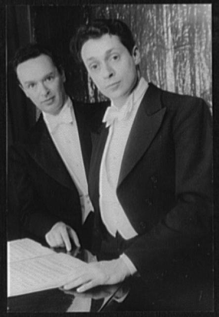 Carl Van Vechten (1880-1964)/LOC. Arthur Gold and Robert Fizdale, 1952